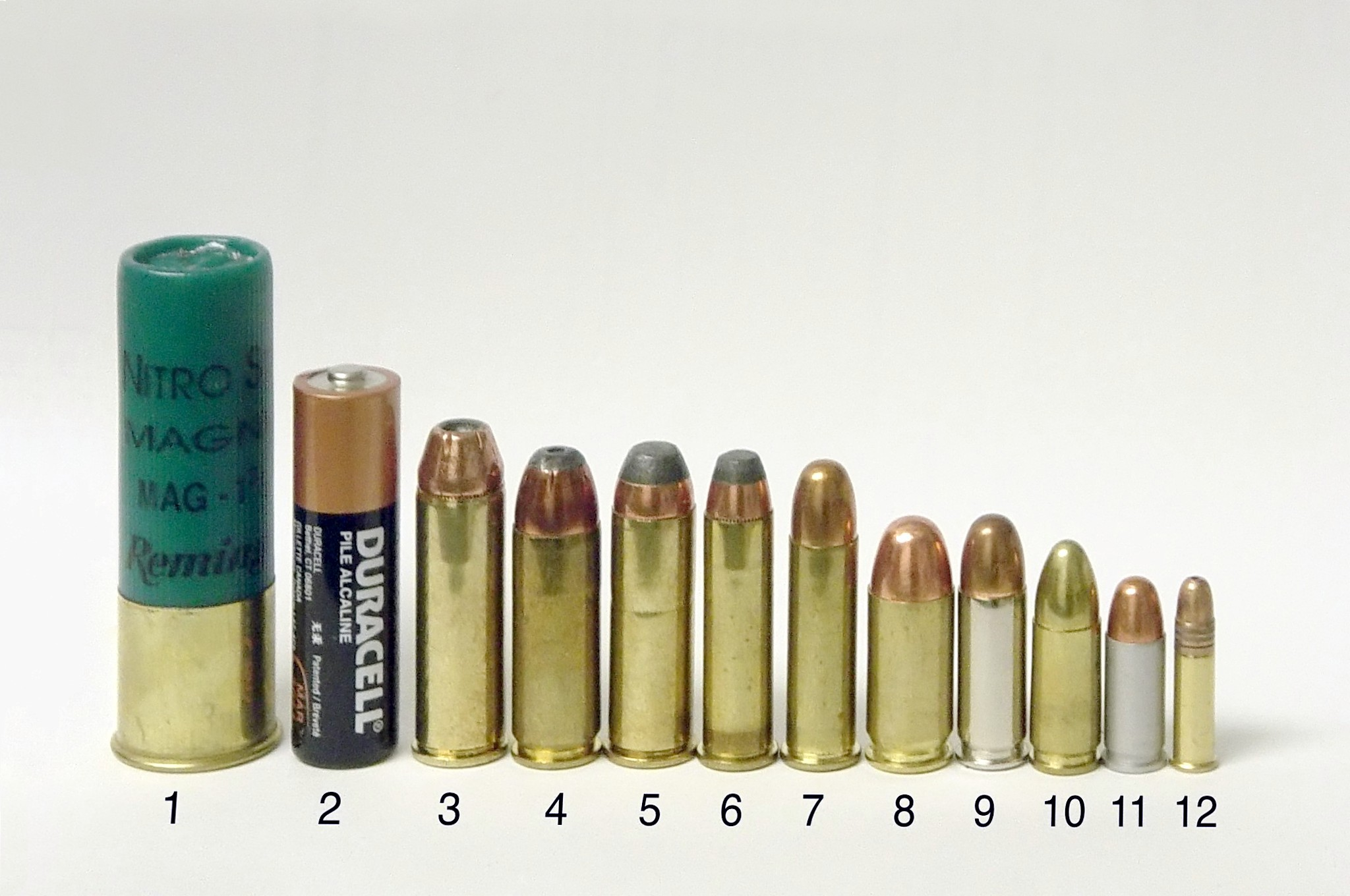 Side-by-side comparison of many common pistol rounds (notably missing, .50 Action Express, 10mm Automatic and .40 S&W, possibly 9x23mm) Left to right: 3 in 12 ga magnum shotgun shell (for comparison) size "AA" battery (for comparison) .454 Casull .45 Winchester Magnum .44 Remington Magnum .357 Magnum .38 Special .45 ACP .38 Super 9 mm Luger .32 ACP .22 LR